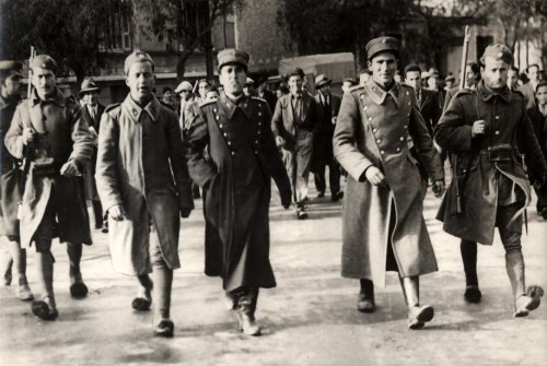 Officers who participated in the failed revolt of March 1935 are escorted under guard.